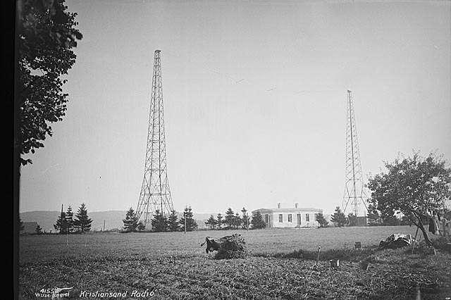 Flekkerøy Radio, Kristiansand, Norway